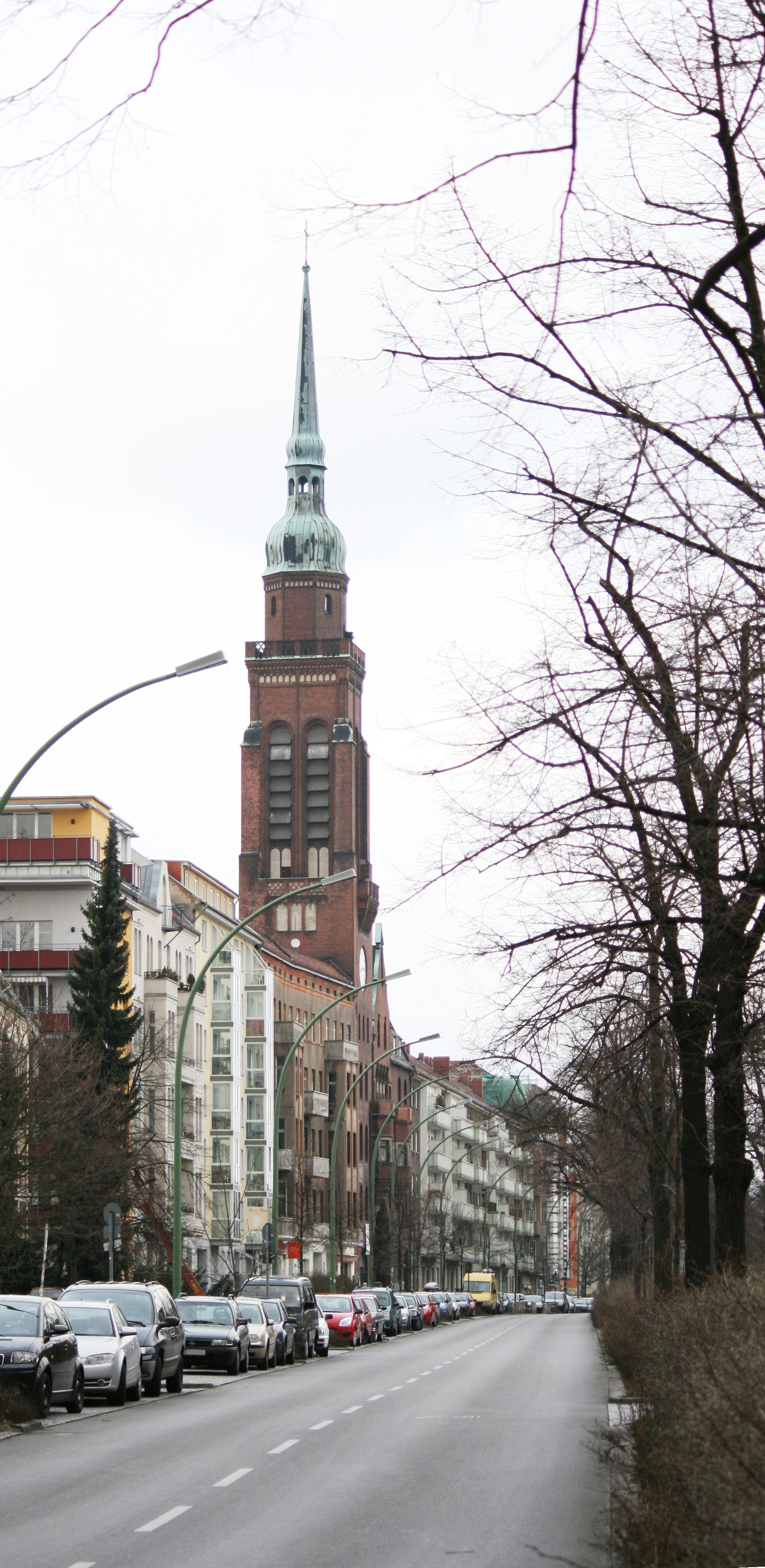 Side view of the Segenskirche in Berlin, Germany